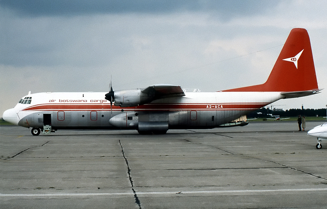 A2-ACA L382 Air Botswana